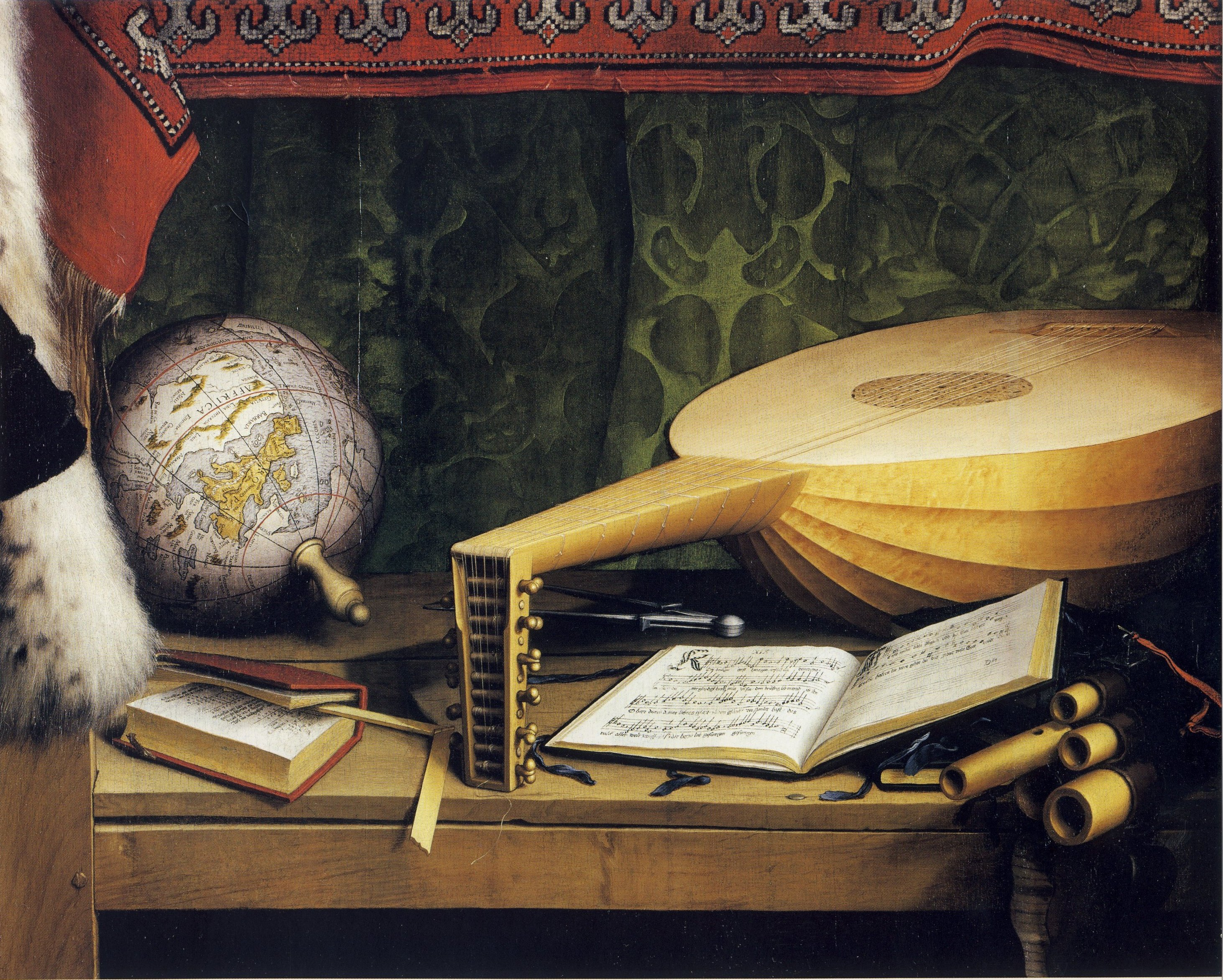 Detail of Double Portrait of Jean de Dinteville and Georges de Selve, called The Ambassadors, oil and tempera on oak, National Gallery, London. This lower shelf between the two ambassadors shows a terrestrial globe, a lute, a Lutheran hymn book, an arithmetic book, dividers, and a bag of wooden flutes. A theme of disharmony is suggested, perhaps referring to the religious context of the ambassadors' mission: the lute has a broken string, the arithmetic book lies open on a division page, and one of the flutes juts out from the rest (Buck, 98).